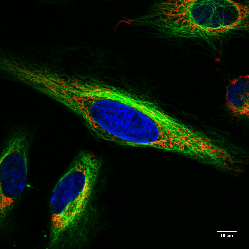 Confocal image (cLSM) of living HeLa cells. Mitochondria are stained in red (Mitotracker red), the nucleus is seen in blue (DAPI). Microtubules are stained in green (Tubulintracker green). Mitochondria form dense and dynamic networks in the cells soma and colocalize with the tubulin network.